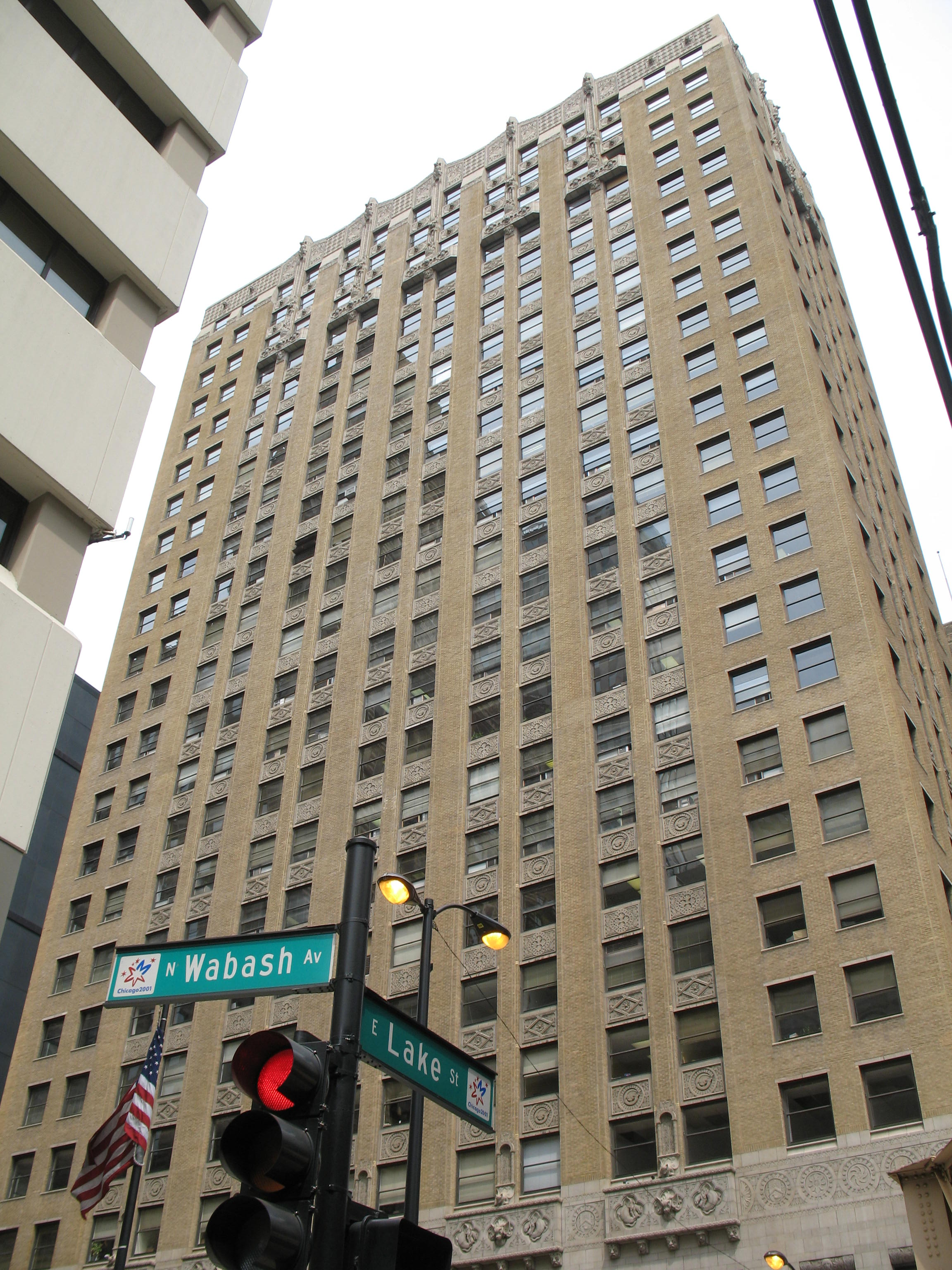 203 North Wabash (Old Dearborn Bank Building)